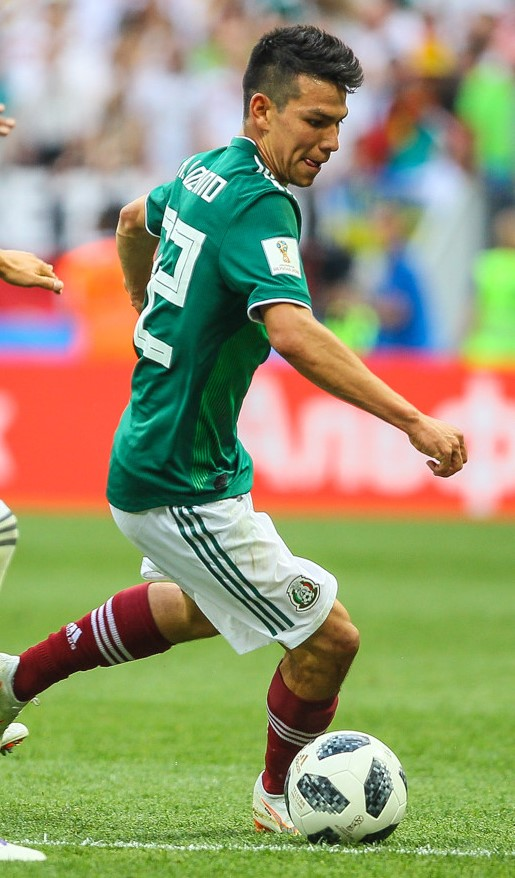 Hirving Lozano